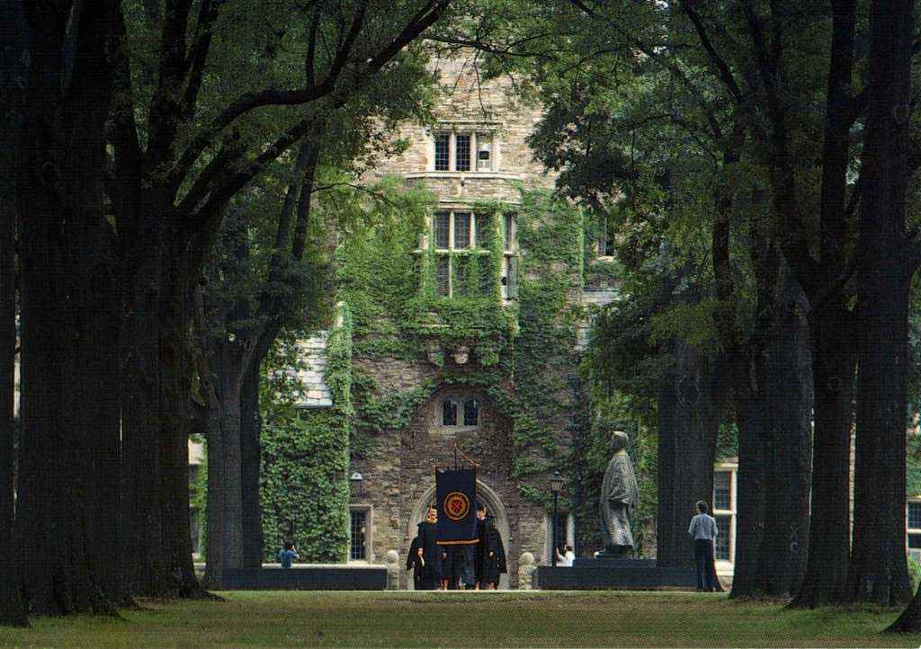 Palmer Hall in its signature ivy.